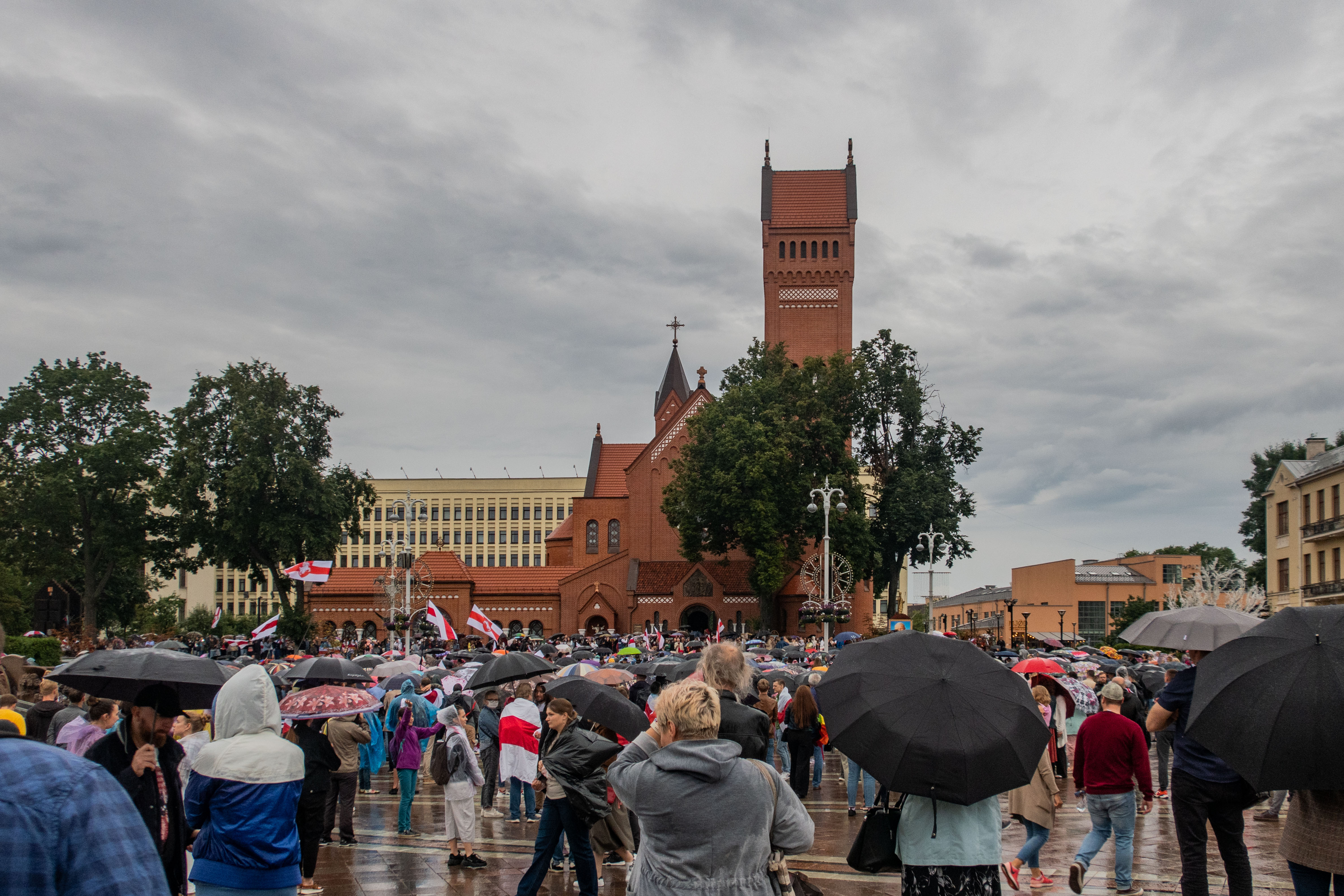 Protest rally against Lukashenko, 25 August 2020. Minsk, Belarus